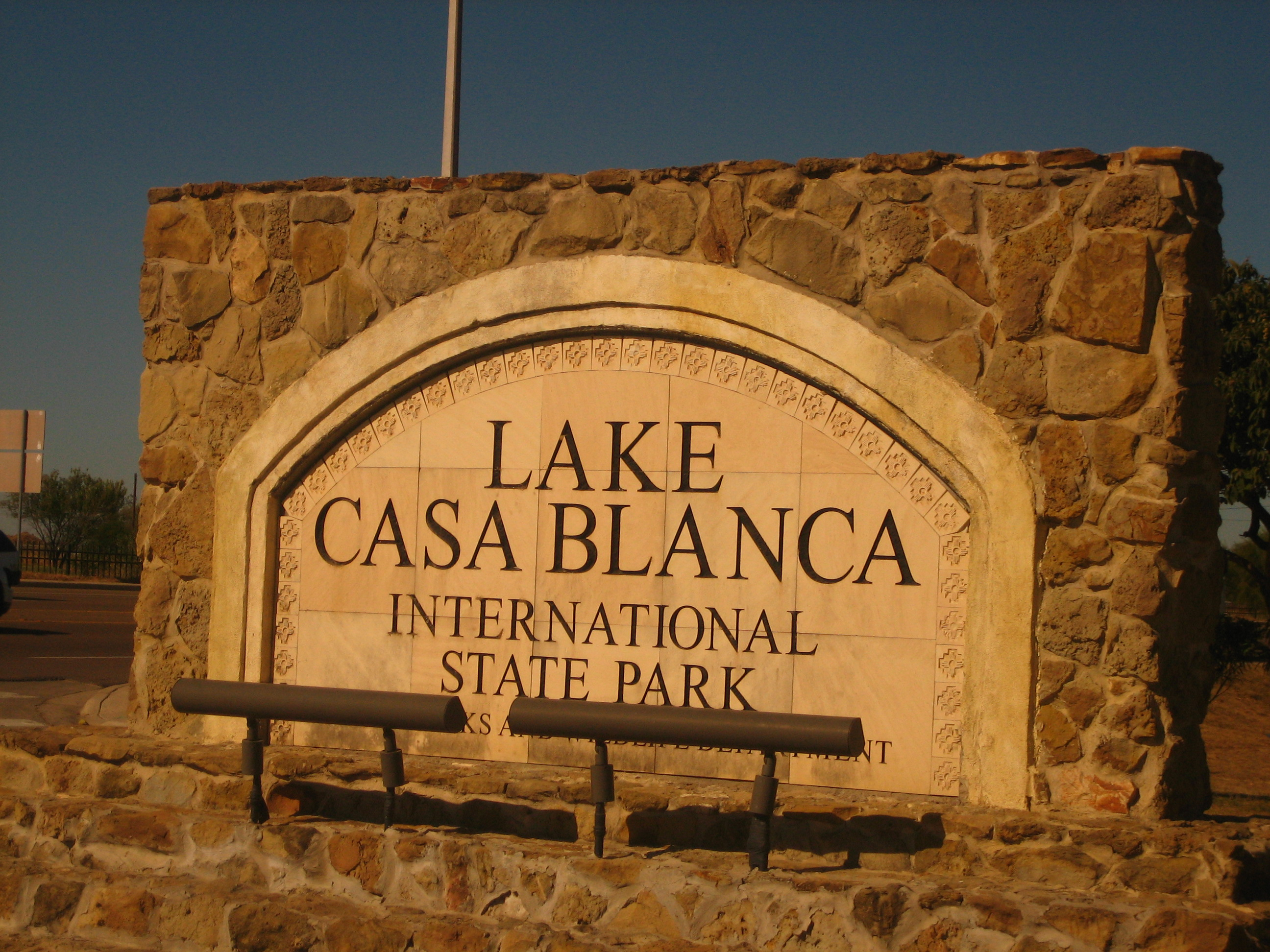 I took photo on Dec. 12, 2008.Billy Hathorn (talk) 03:54, 16 December 2008 (UTC)